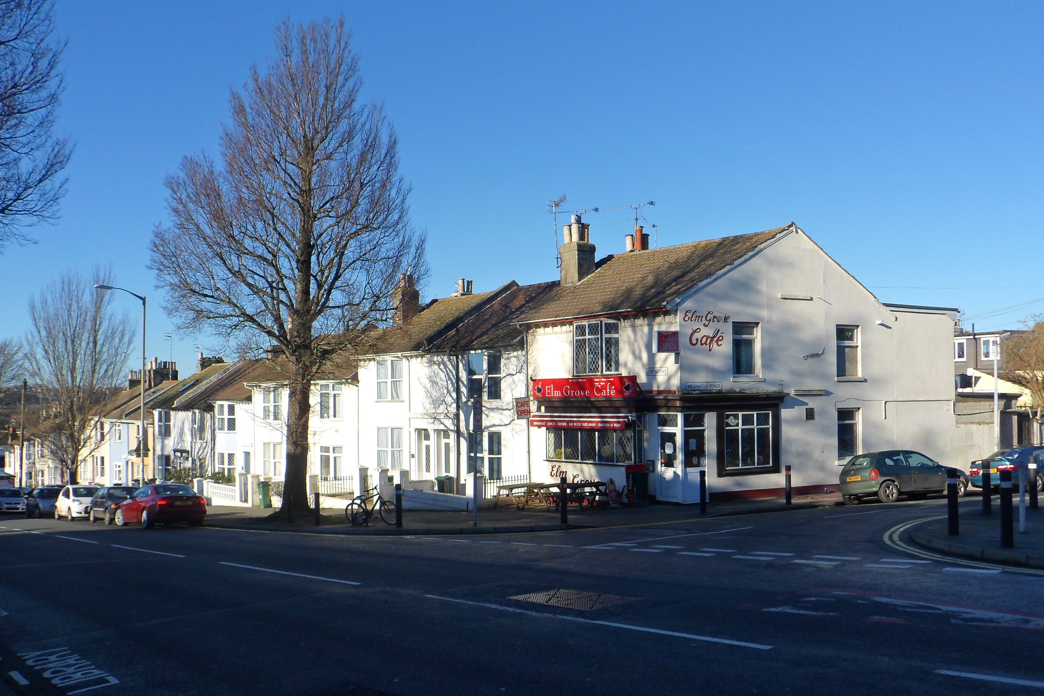 1860s terraced housing on the north side of Elm Grove, Brighton, City of Brighton and Hove, England. Elm Grove was developed from 1852, when it was planted with elms along its length.